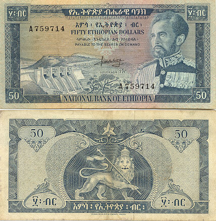 Ethiopian BIrr